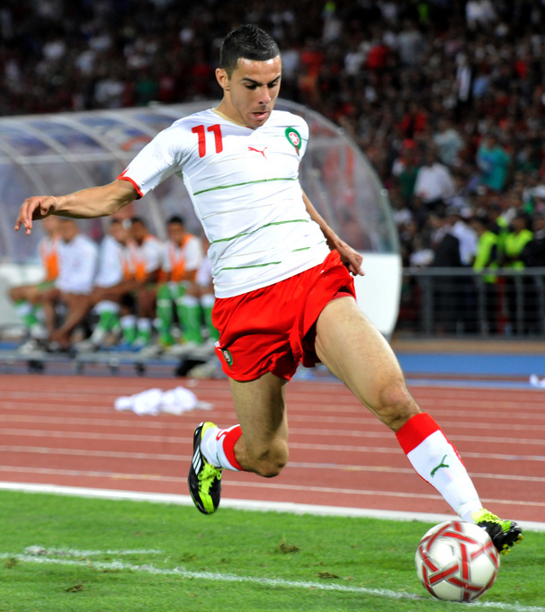 Moroccan football player Oussama Assaidi while playing in match against Algeria